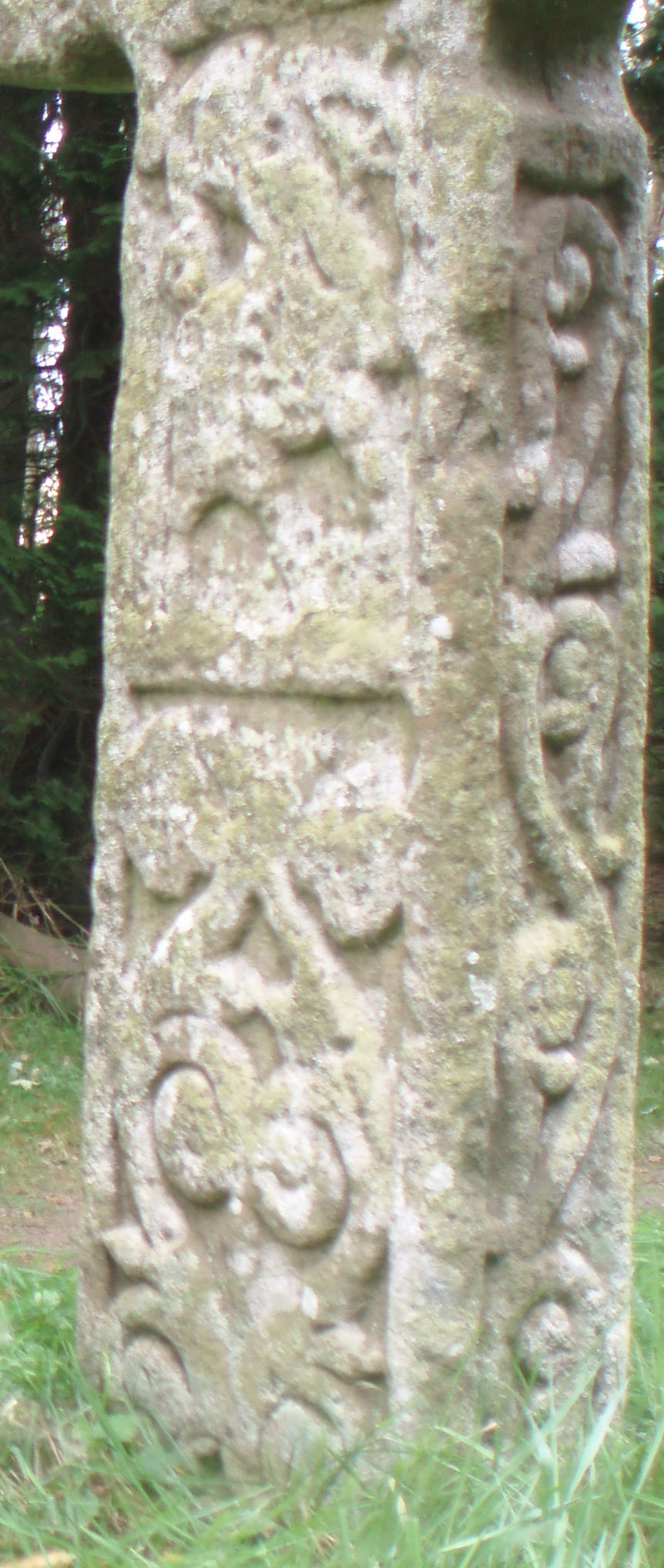 Three quarters view of camus cross shaft showing foliar detail